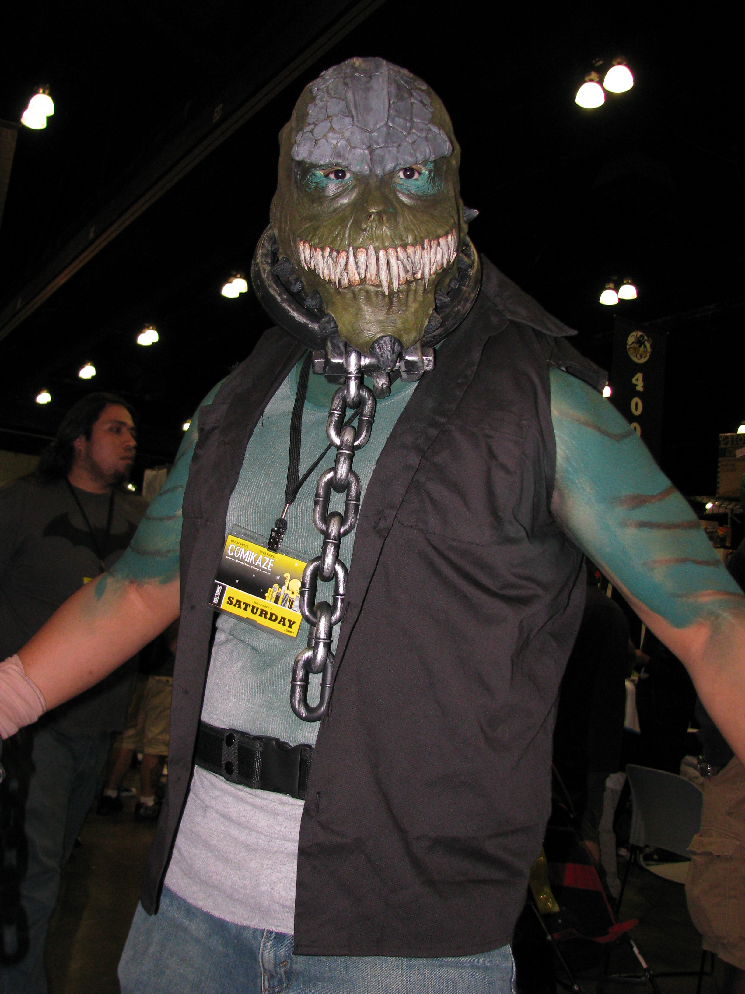 Cosplay of Killer Croc from the Batman Arkham series